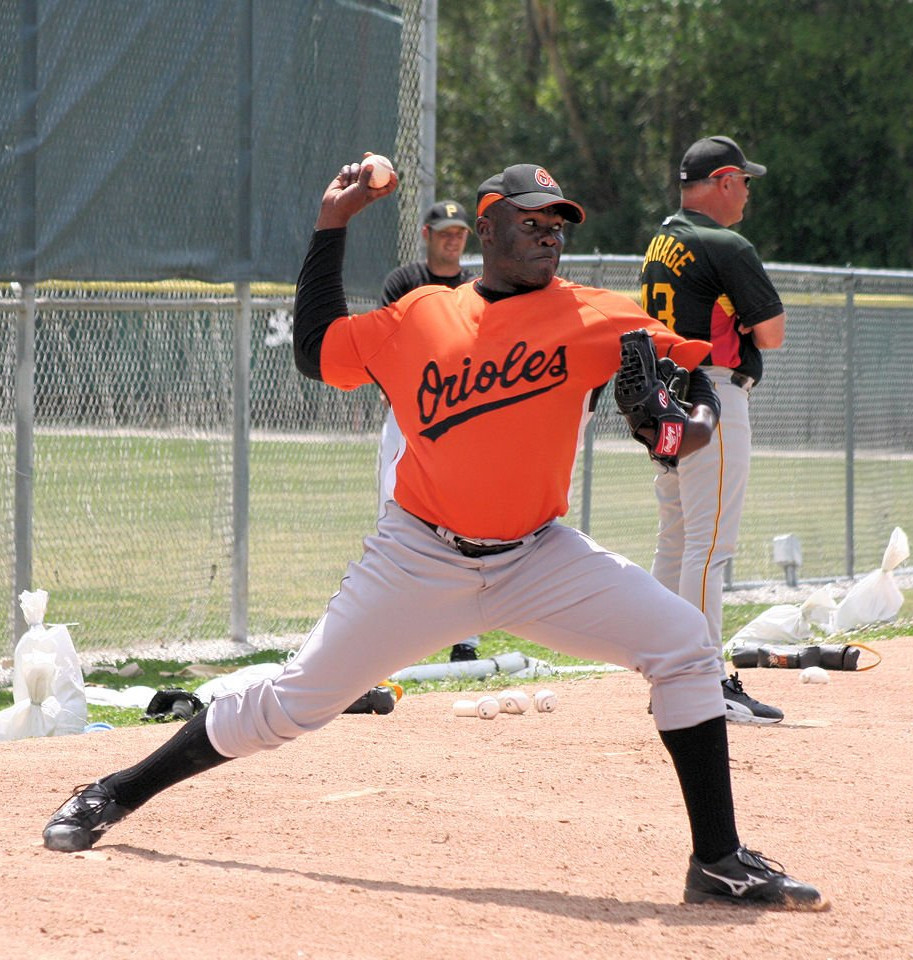 Description Esteban Yan pitching during Orioles Minor League Spring Training DateSourceOwn workAuthorHappyHarvick2962 (talk) 19:44, 11 May 2008 . . HappyHarvick2962 . . 1,440×960 (295 KB) Esteban Yan pitching during Orioles Minor League Spring Training